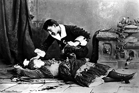 Scan of 1880 photo of Emily Soldene in the title role of Carmen.